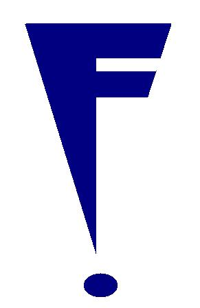 Freethought Logo, original creator of logo unknown, this file created in microsoft paint by uploader, logo